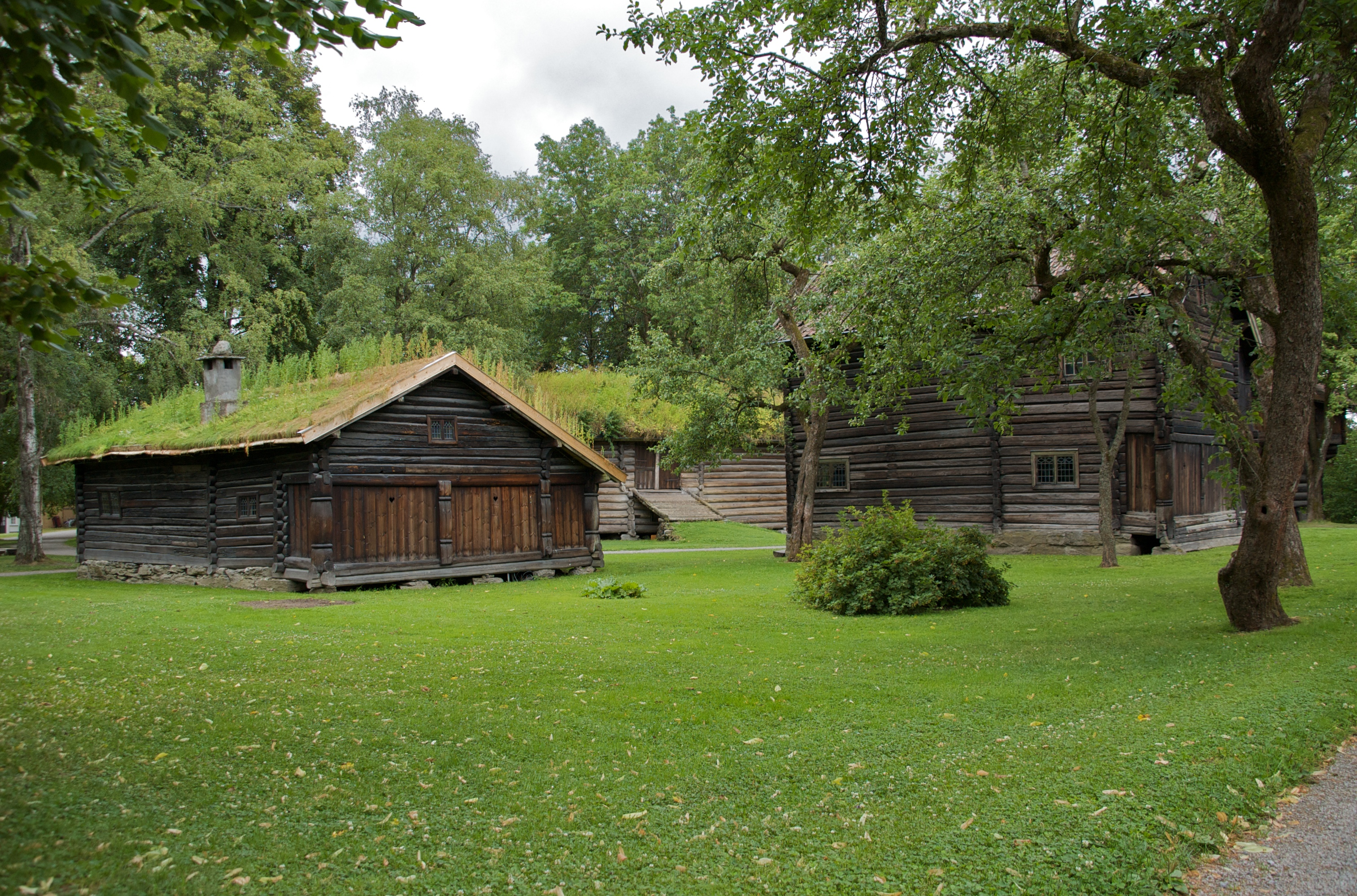 From Brekkeparken, Telemark Museum, Skien, Norway.